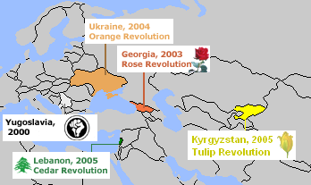 Map of Color Revolutions. Created by User:Aris Katsaris. Tulip image snatched from Image:Illustration Tulipa sylvestris0.jpg which is under a GFDL license. I made a choice not to include "Purple Revolution", because (outside a Bush quote) it doesn't seem widely accepted as part of the series.